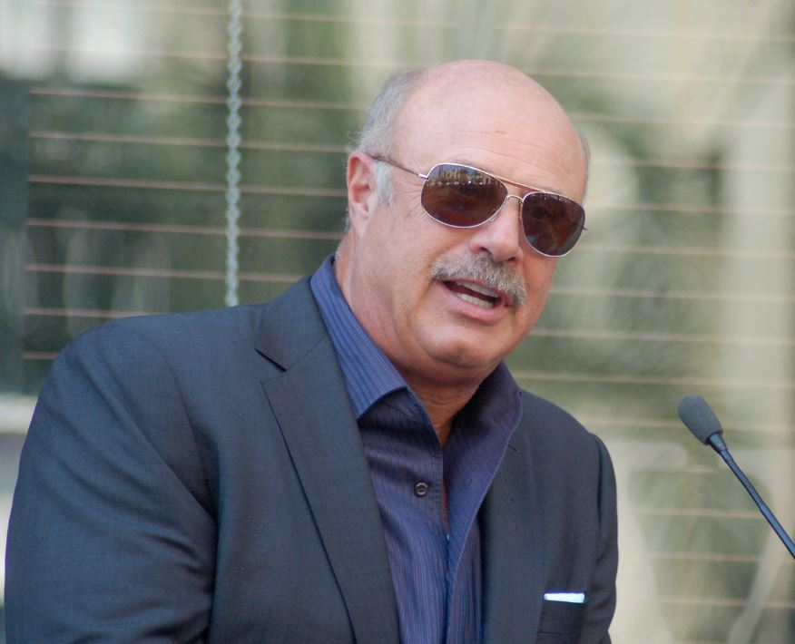 Phil McGraw at a ceremony for Steve Harvey receive a star on the Hollywood Walk of Fame.